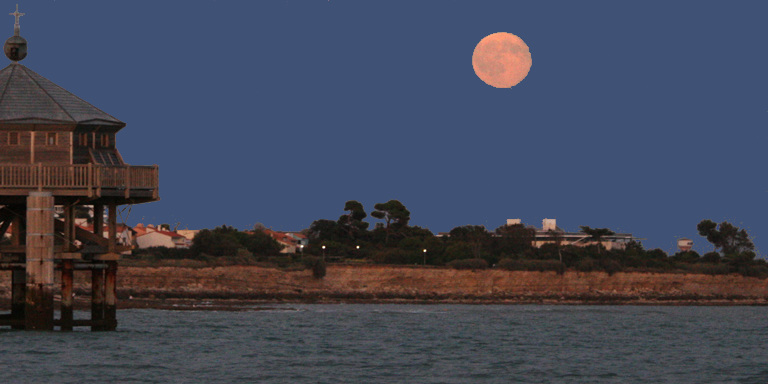 Note that the sky and Moon were edited to remove noise and make the picture more dramatic. Intended for Lunar effect.